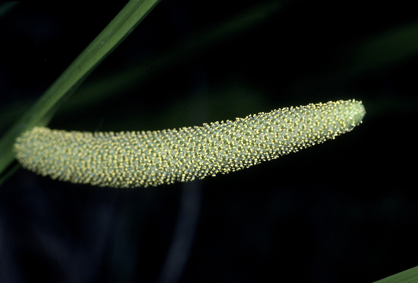 Species Acorus calamus Family Acoraceae